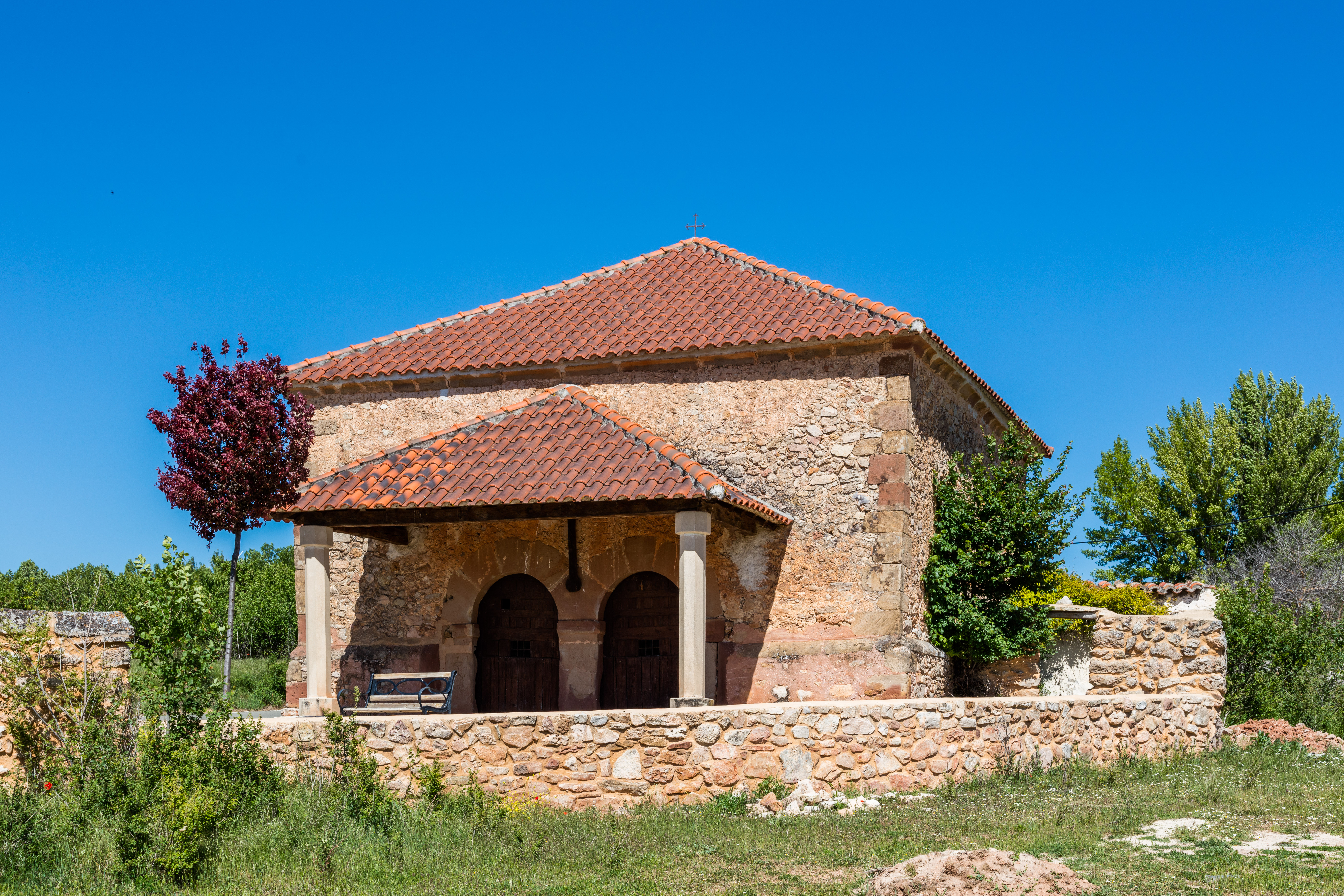 Hermitage of Bañuelos, Guadalajara, Spain